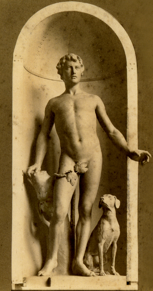 Adam, figure from the Brautpforte (Rathaus Hamburg) by the artist Jacob Ungerer